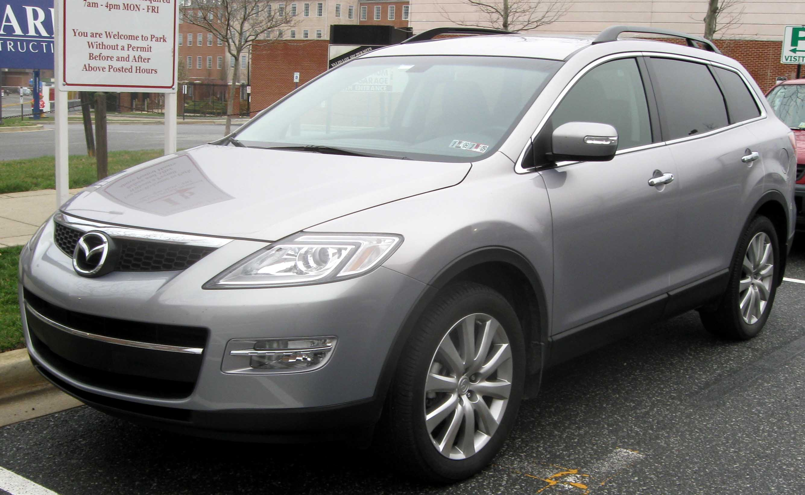 2007-2009 Mazda CX-9 photographed in College Park, Maryland, USA.